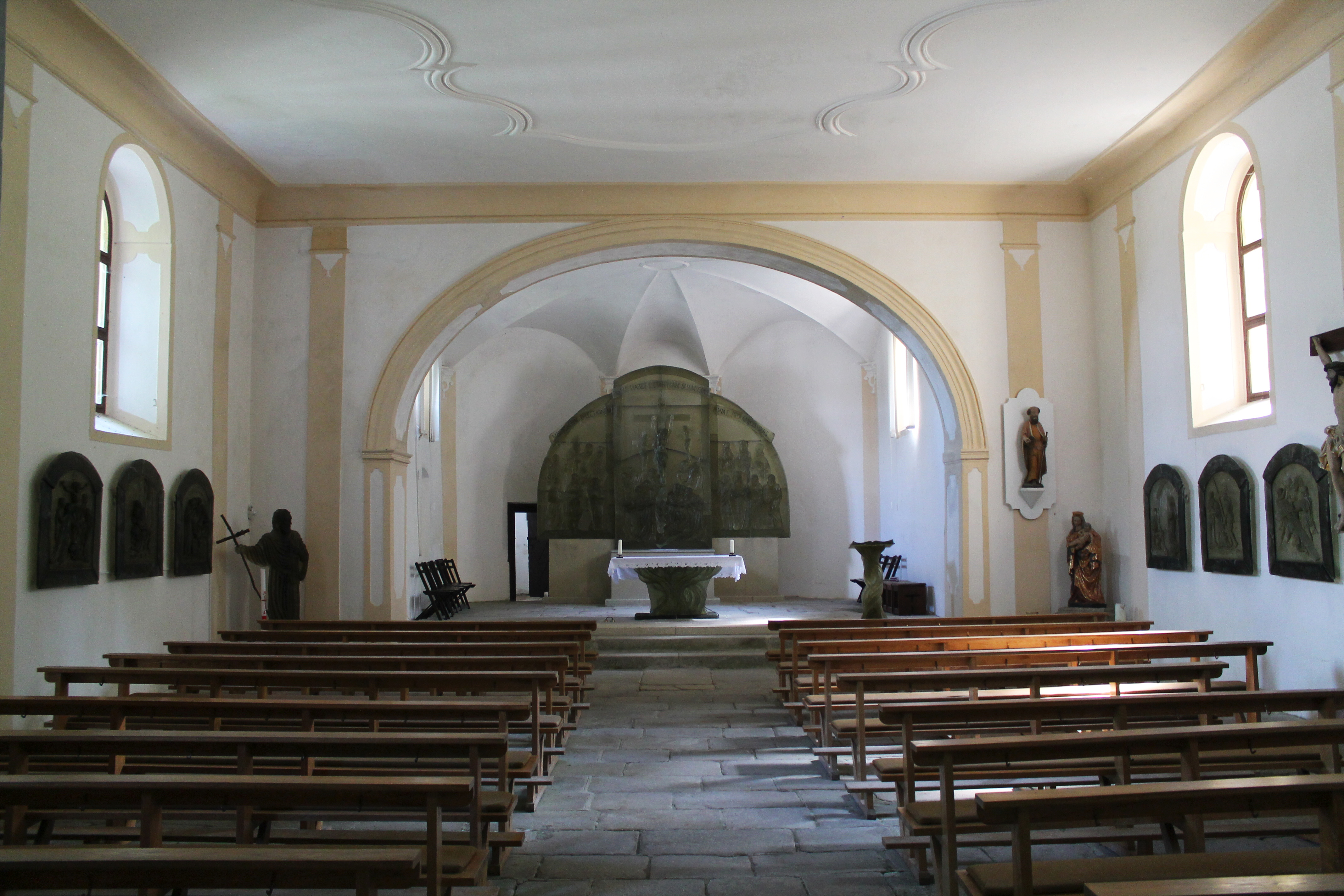 Church of Gunther of Bohemia, Dobrá Voda, Hartmanice, Klatovy District, Czech Republic - Google Maps - Google Earth